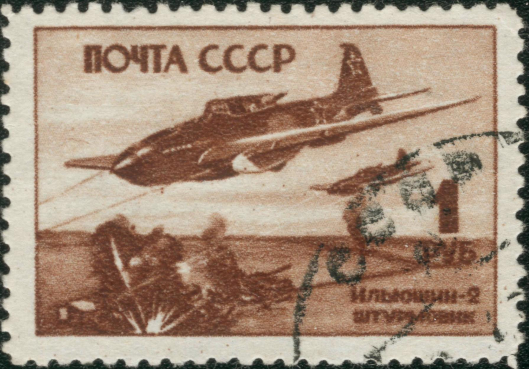 USSR stamp, Ilyushin Il-2 ground attack aircraft, 1945, CPA #990, 1 ruble, used.